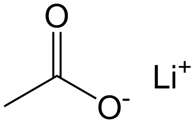 Lithium acetate structure